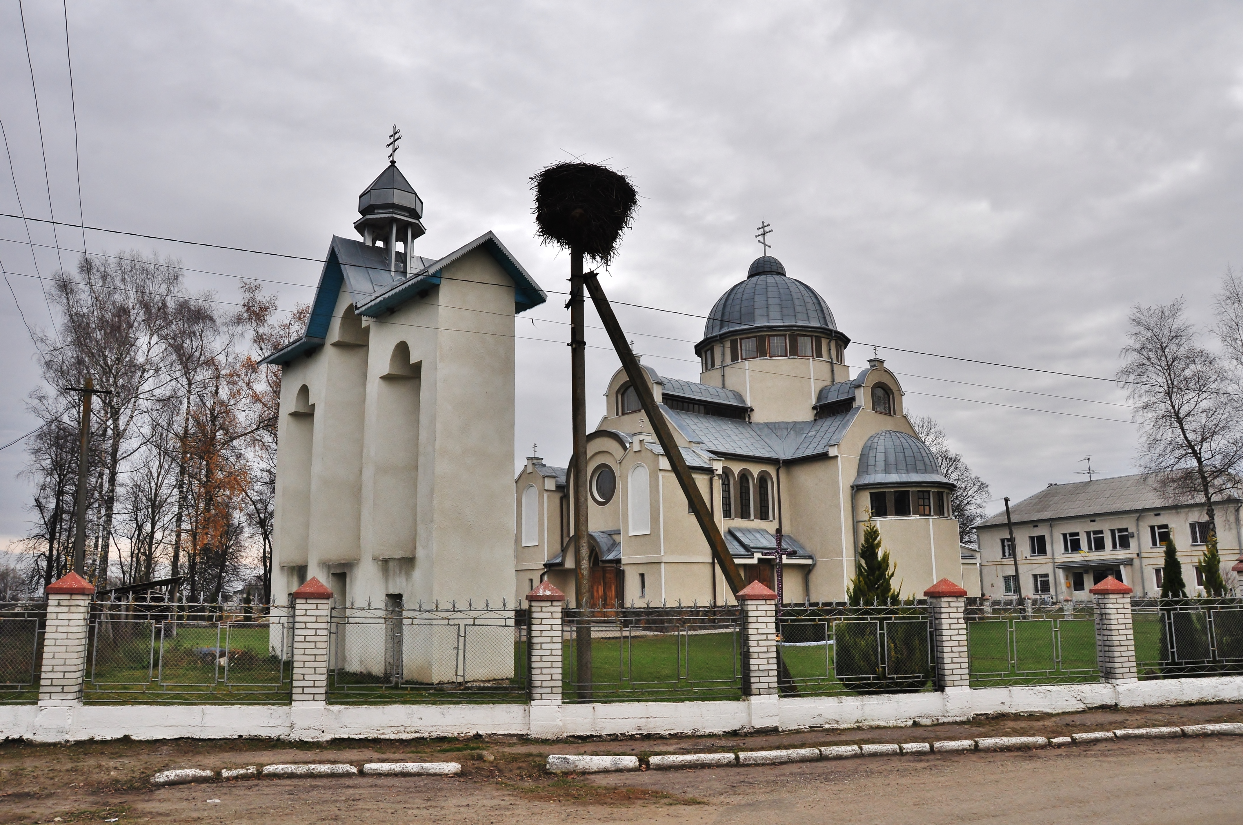 Orthodox St. George Church; now St.Demetrios the Great Martyr Chuch UGCC in Kolodruby village, Mykolaiv Raion, Lviv Oblast